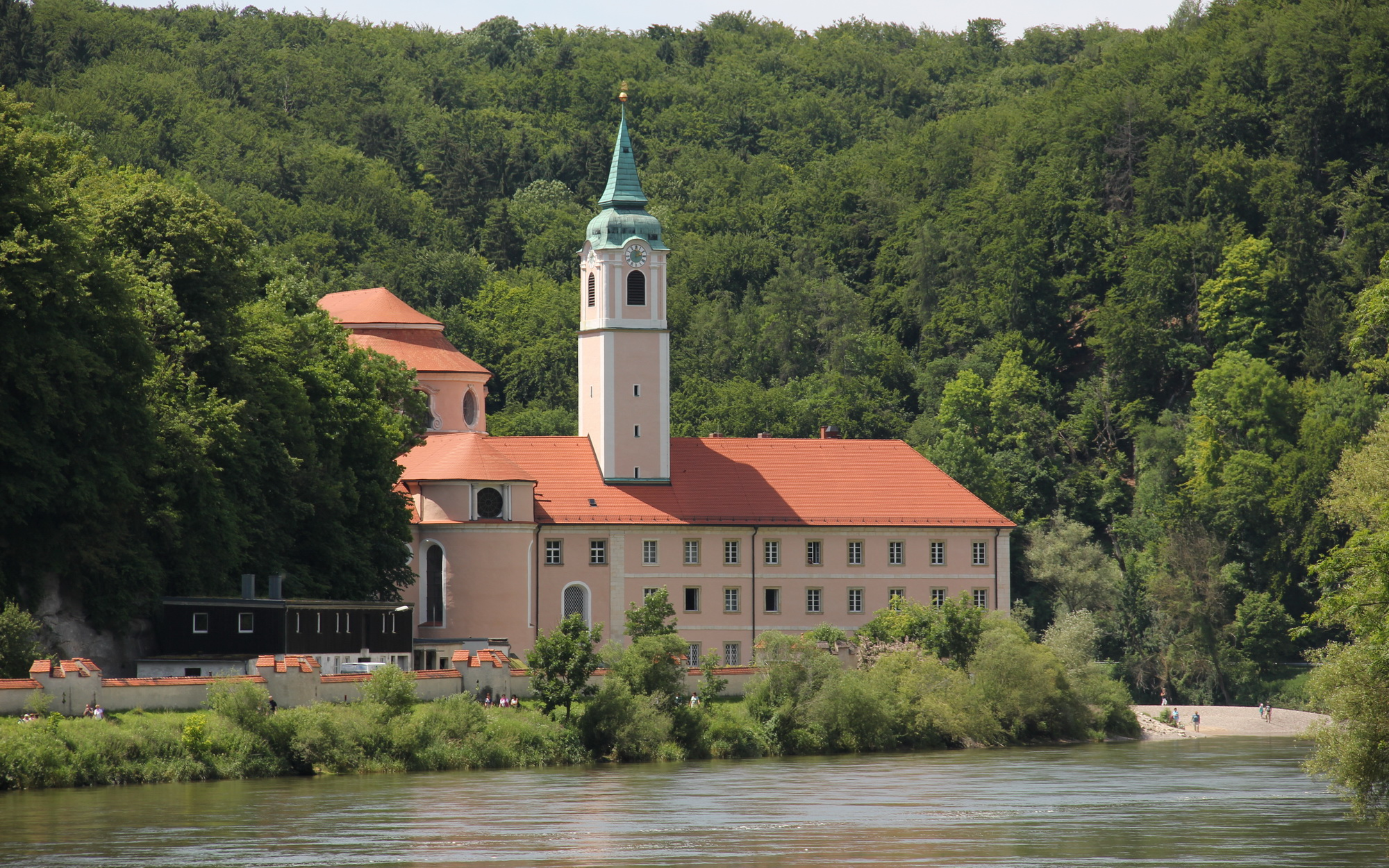 Weltenburg Abbey Native nameKloster WeltenburgLocationWeltenburg, Lower Bavaria, GermanyCoordinates48° 53′ 56″ N, 11° 49′ 11″ E Established7th century date QS:P,+650-00-00T00:00:00Z/7 Web page Authority control : Q260108 VIAF: 140754787 LCCN: n83039576 GND: 809502-4 WorldCat institution QS:P195,Q260108